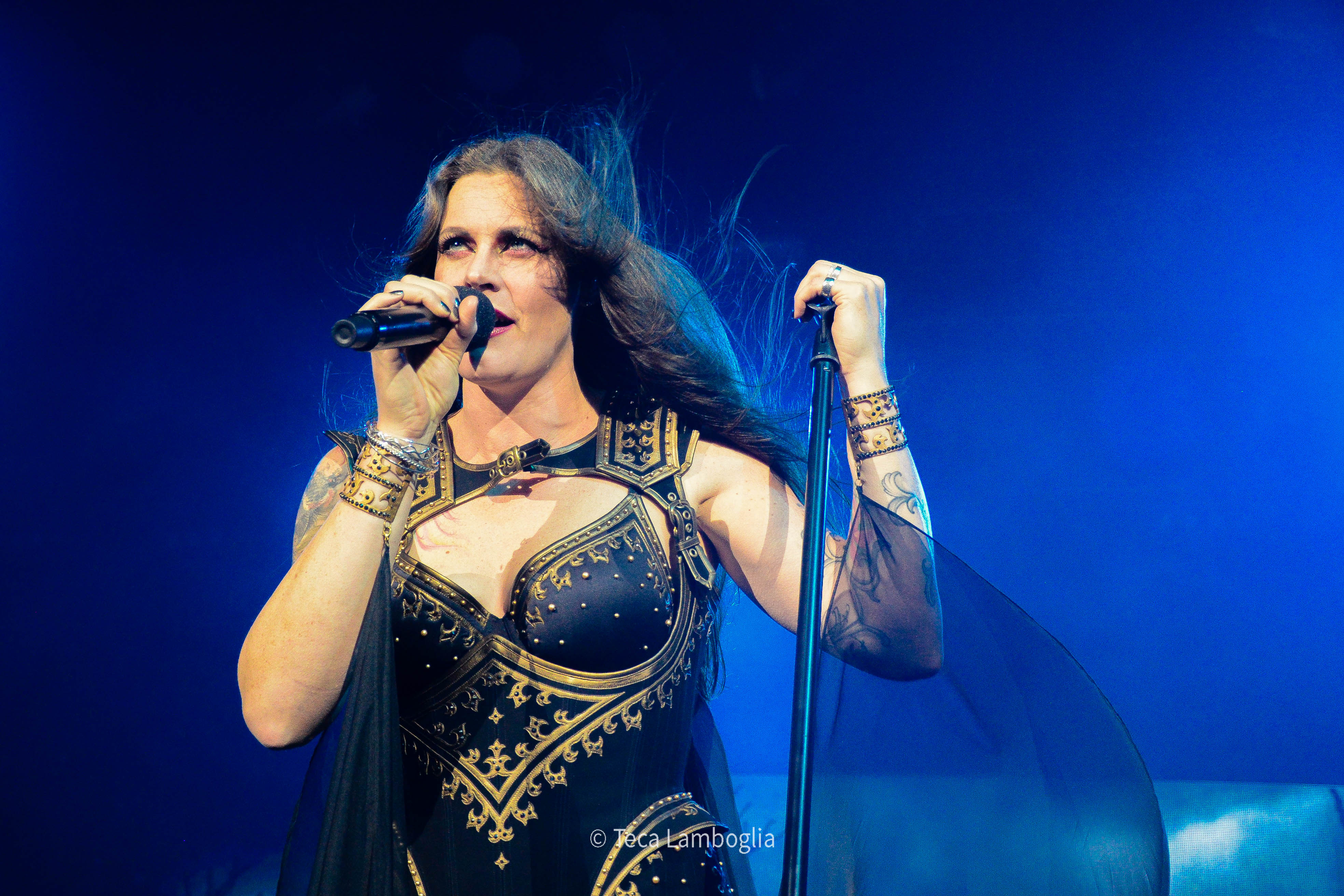 Nightwish in Brazil, 2018